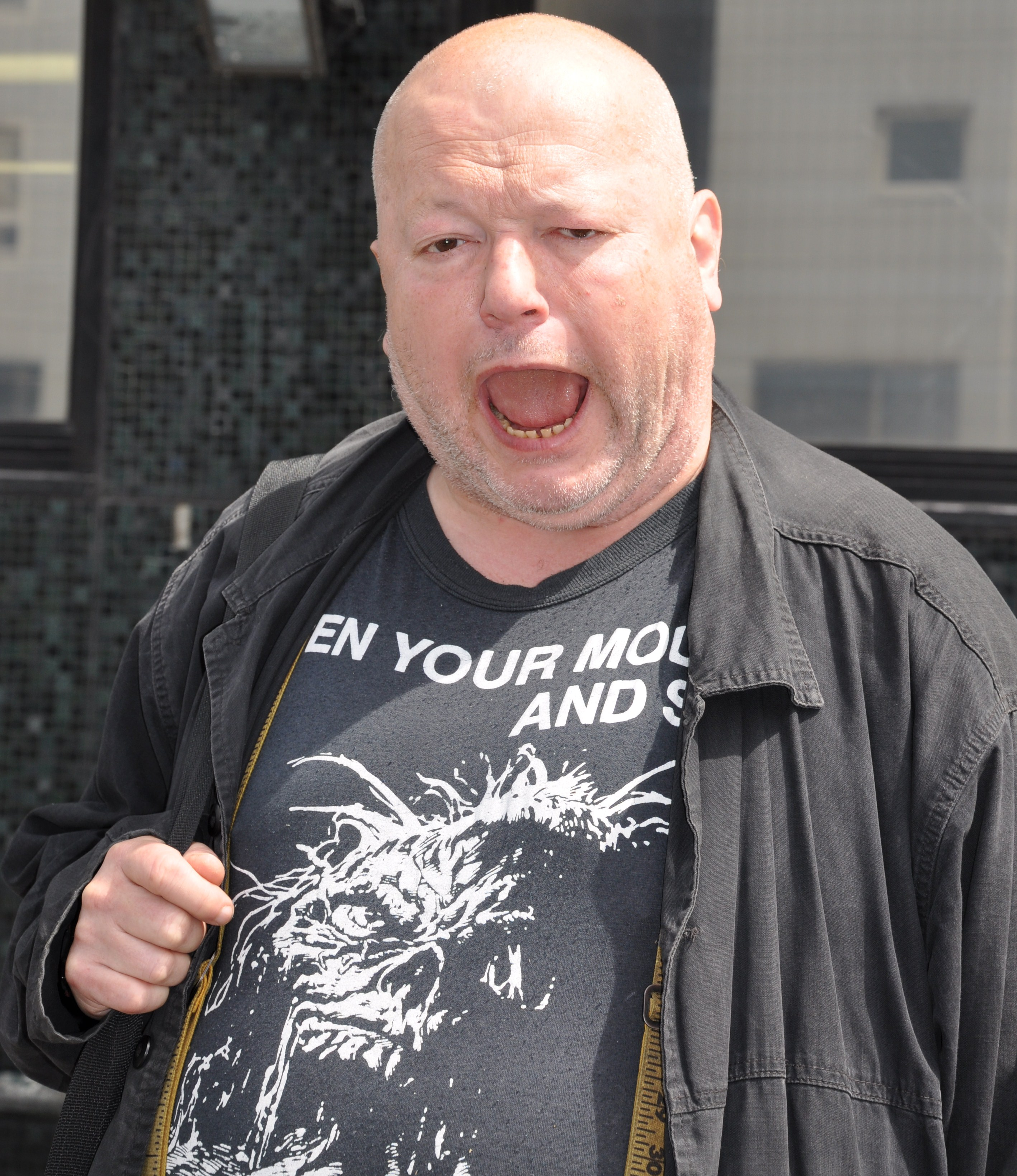 Francois Hadji Lazaro-Les Garcons Bouchers